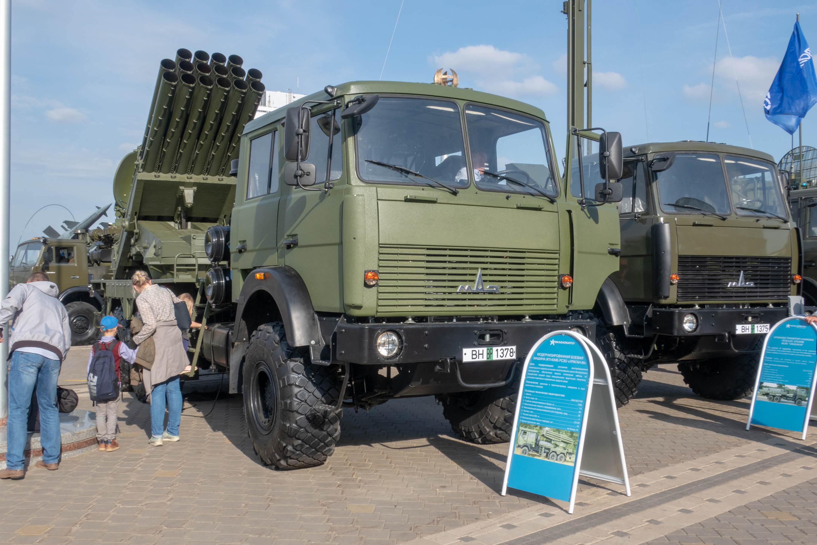 9P140MB Uragan (upgrade made in Belarus). Photo taken at Milex-2019 arms and military machinery exhibition (Minsk, Belarus)